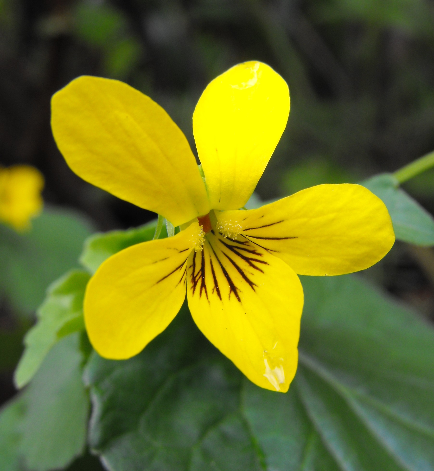 Viola glabella at the UC Berkeley Botanical Garden, California, USA. Identified by sign.